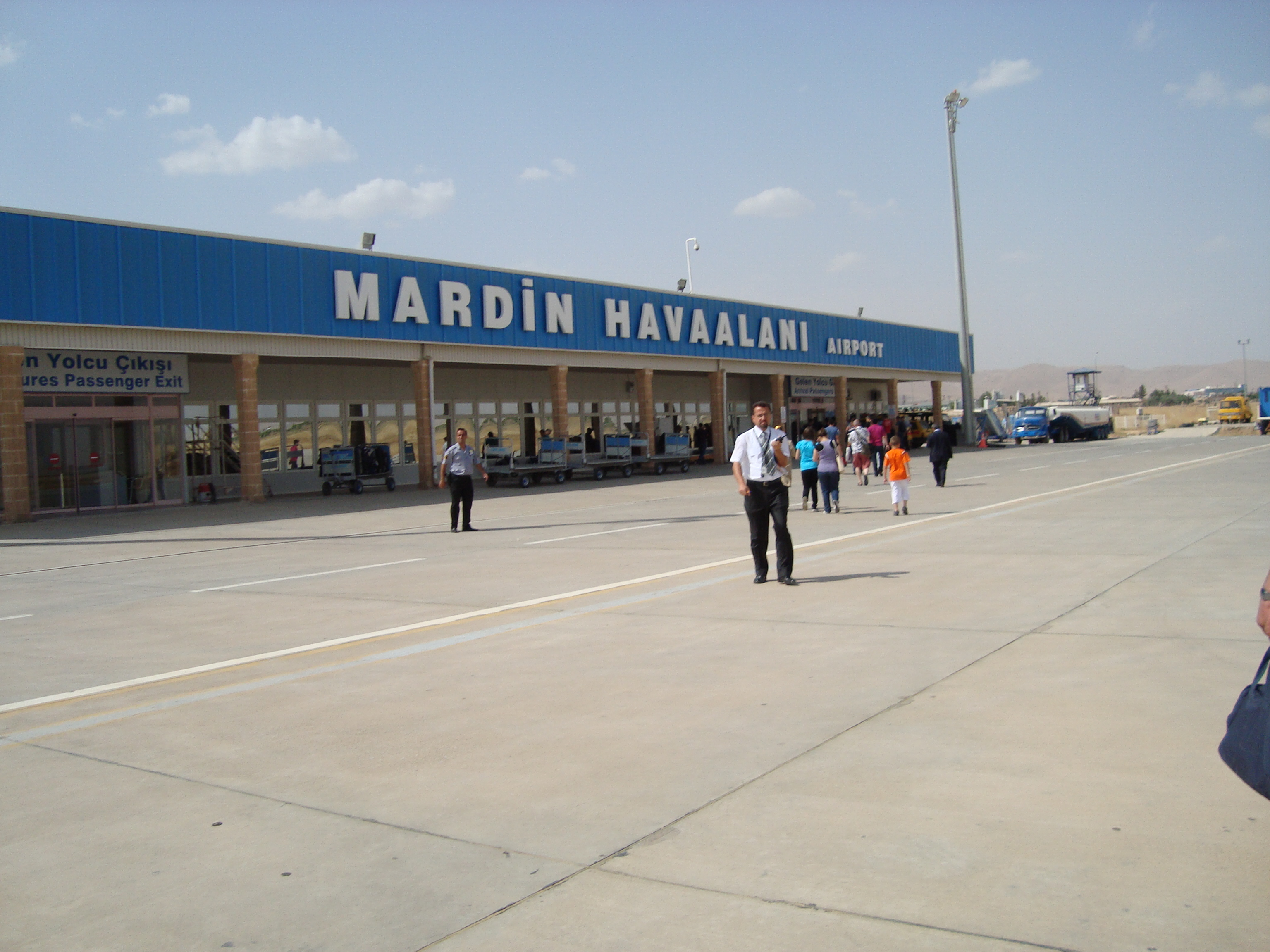 A picture of Mardin Airport taken inside, the planes' landing area